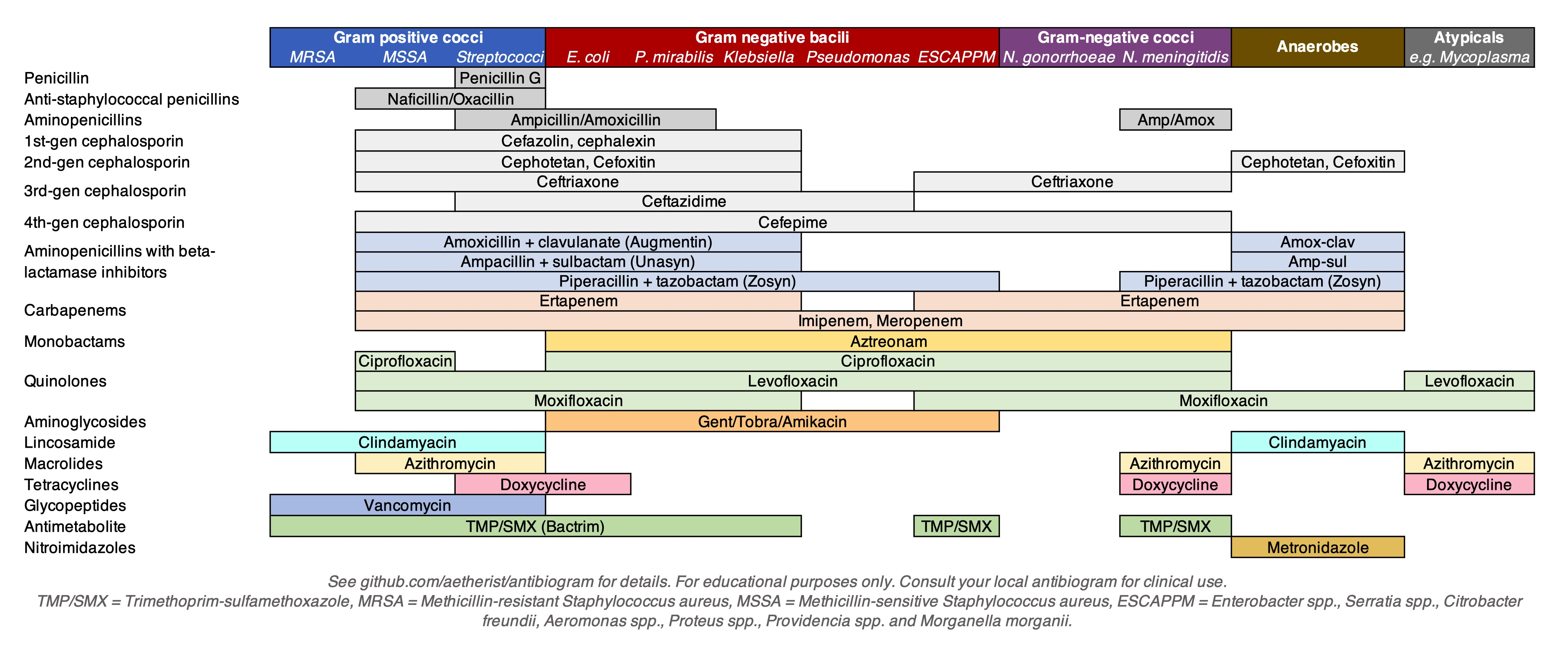 Simplified antibiotics coverage diagram